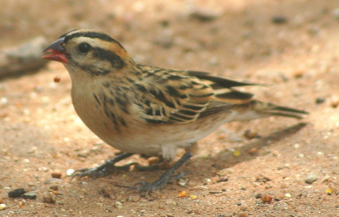 Female of Vidua macroura, Pintailed Whydah, Johannesburg garden